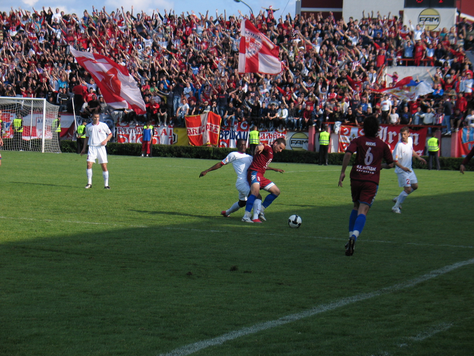 Petronijevic 2